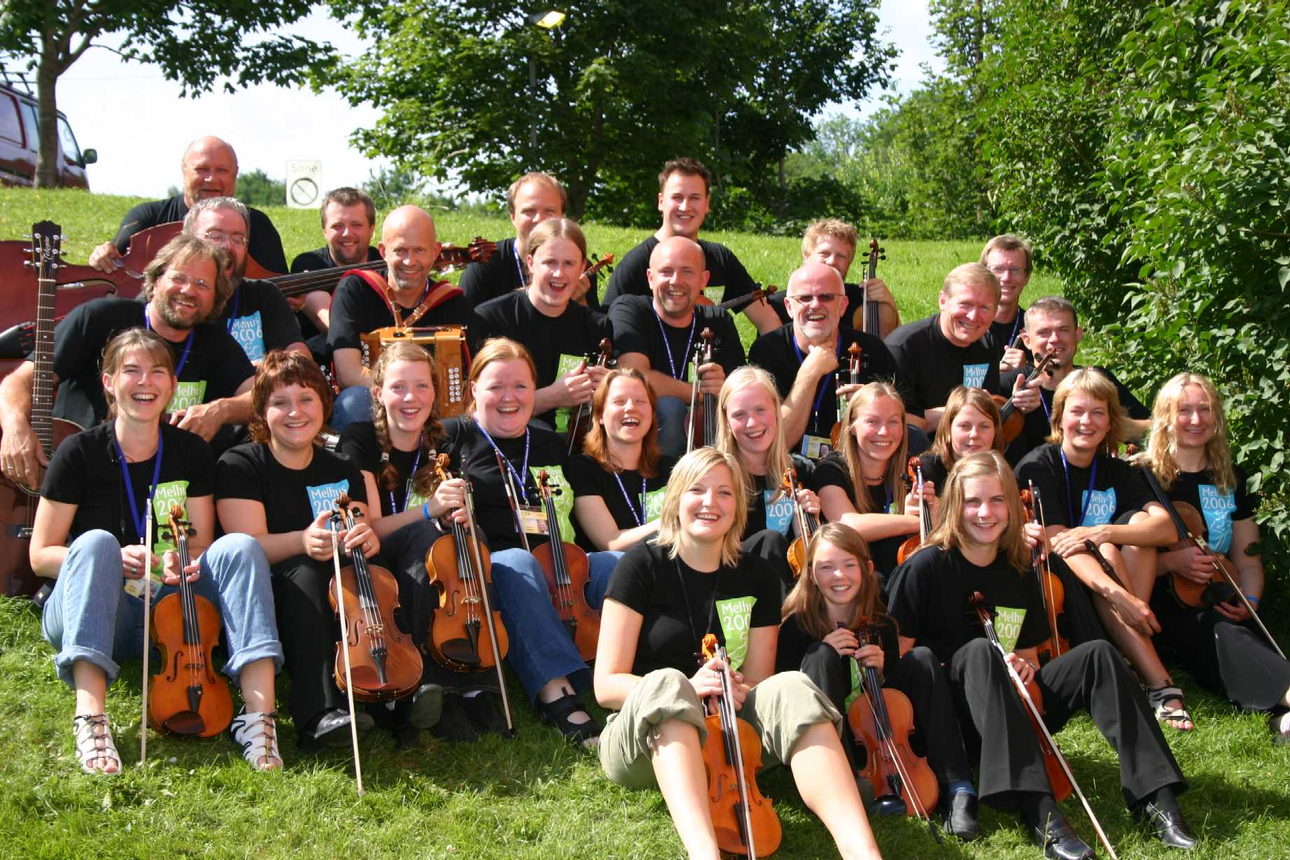 Søndre Trondhjems Spellmannslag after performance at the Landsfestivalen i Gammaldansmusikk 2006. Venue Melhushallen.